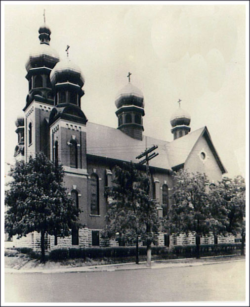 St. John the Baptist Ukrainian Catholic Church in Syracuse, New York